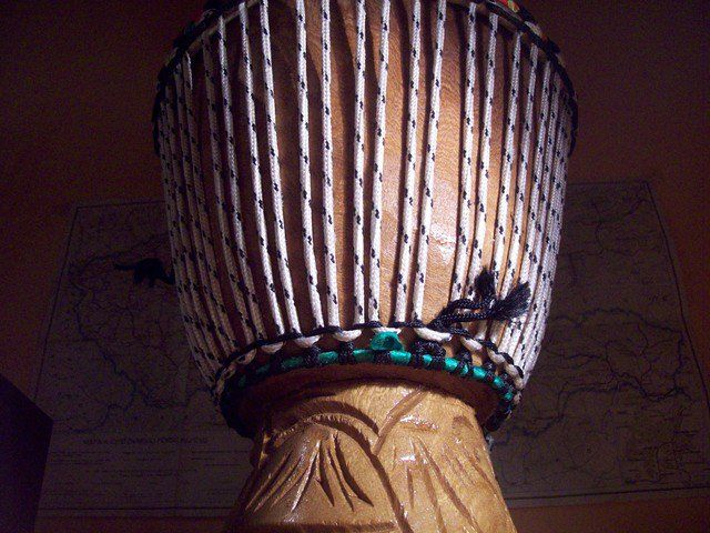 Djembe drum